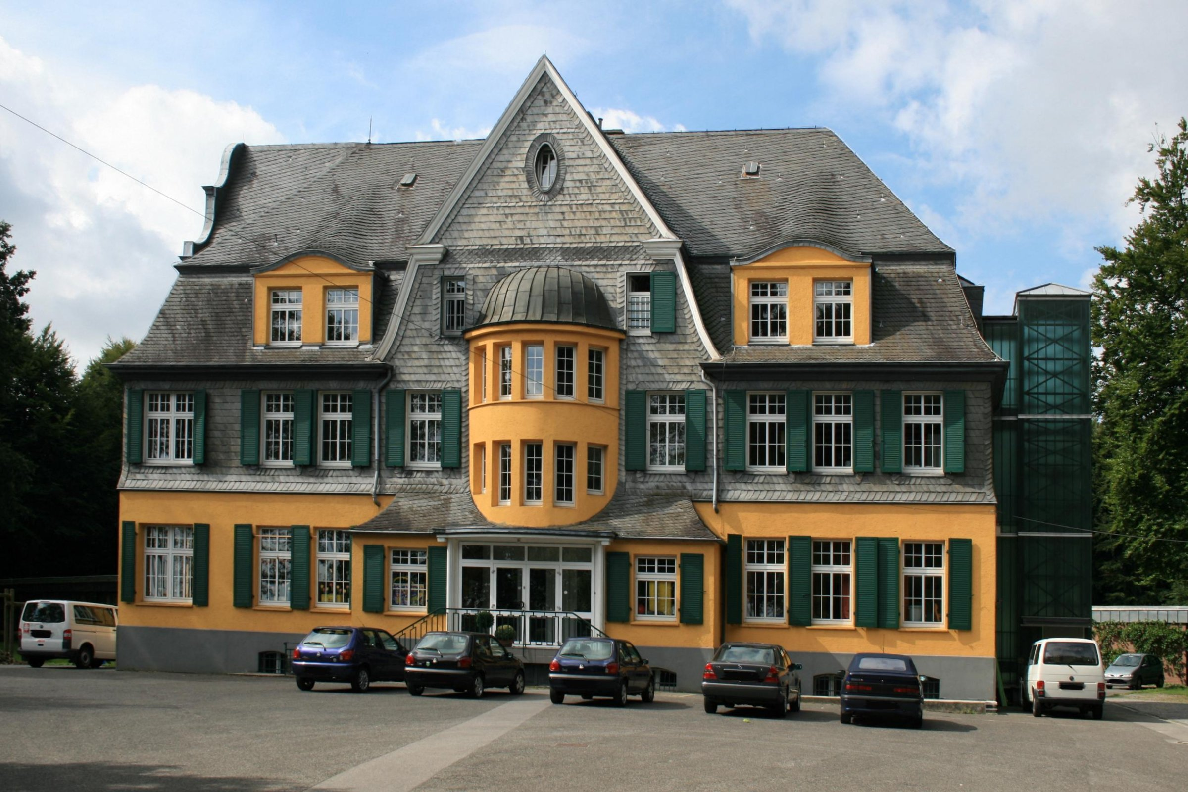 Cultural heritage monument No. A 020 in Mönchengladbach